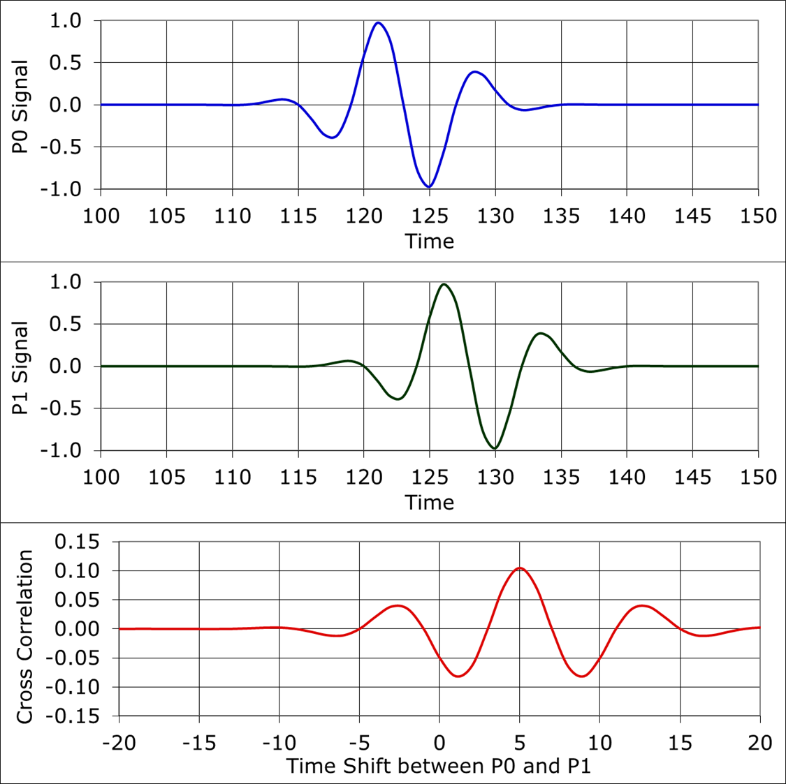 P0 is an example of a pulse time series signal. The time units are arbitrary. It was produced with the function exp(-T^2/w) * sin . P1 is P0 shifted to the Right by 5. Bottom graph is the cross correlation of P0 and P1 showing the max at T = 5.